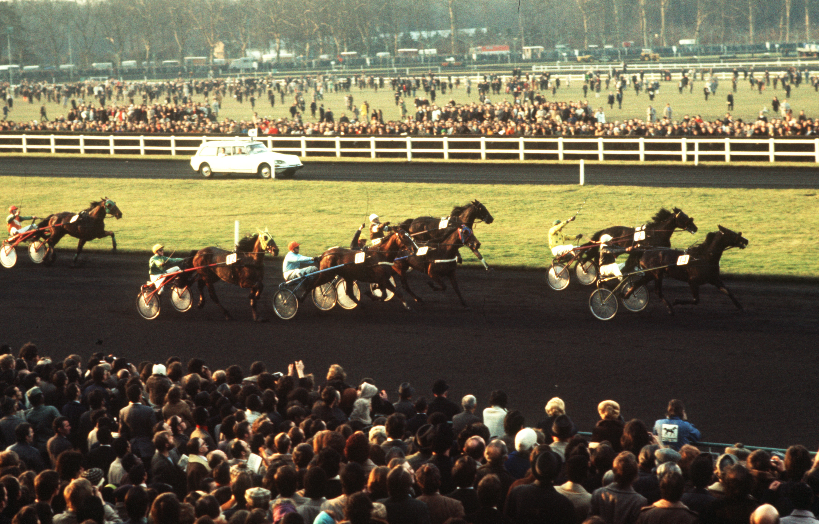 Swedish harness driver Berndt Lindstedt and trotter Dart Hanover (no. 14) wins the 1973 Prix d'Amérique at the Hippodrome de Vincennes, France.